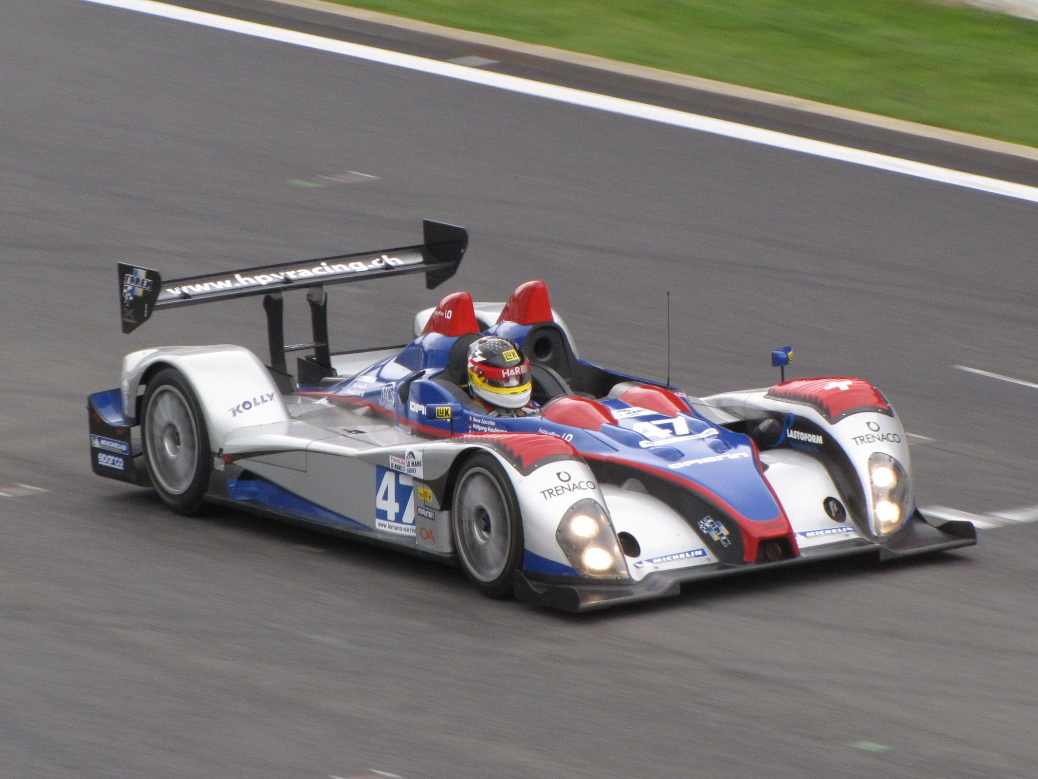 Wolfgang Kaufmann driving a ORECA Formula Le Mans at training of 1000 km of Spa 2010.